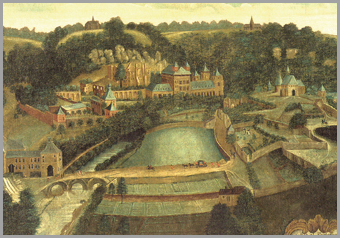 Joachim Laukens painting of "Le château Mansfeld", oil on canvas, 86 by 97.5 cm, 1656.